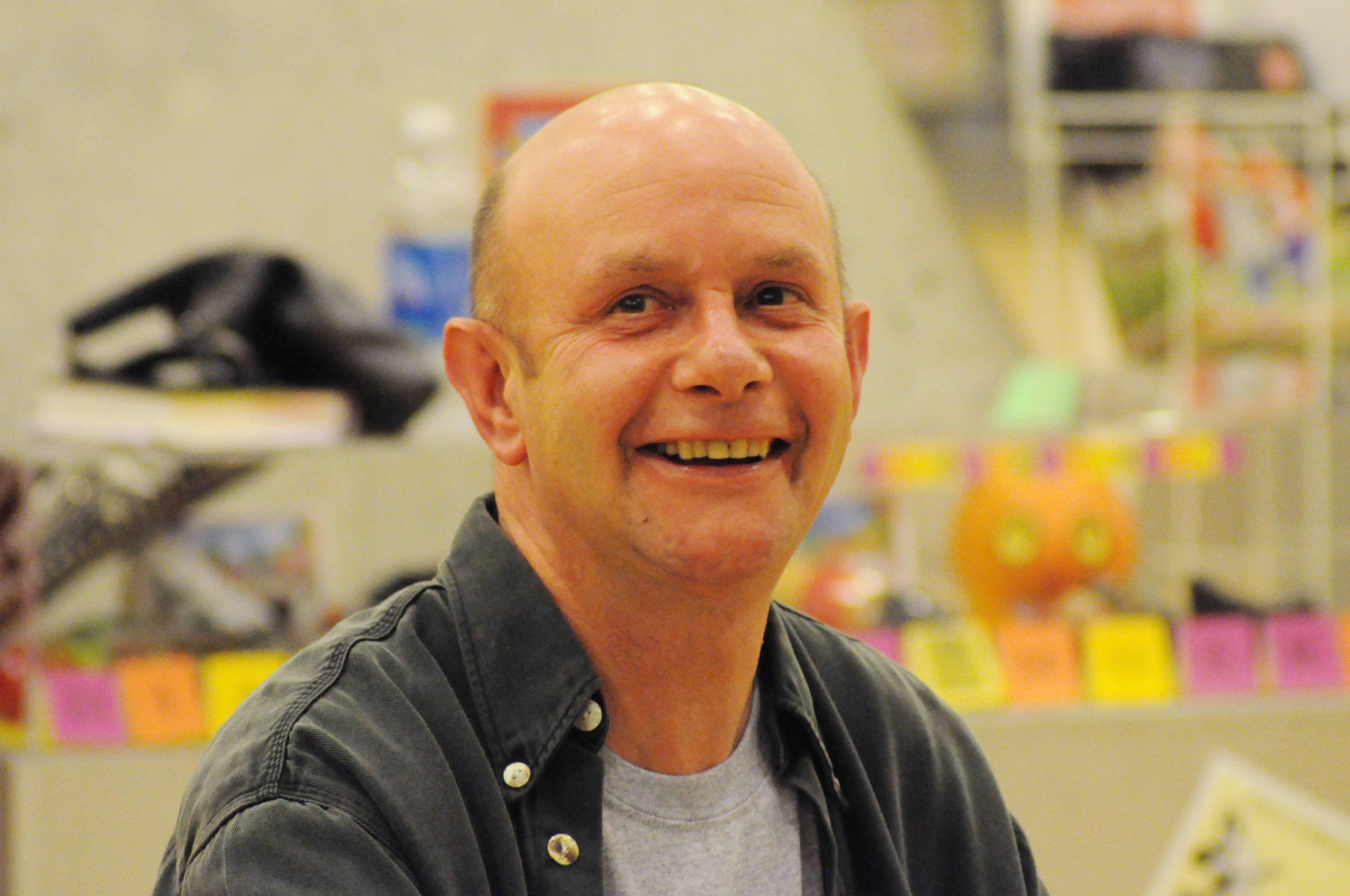 Nick Hornby signing books at Central Library, Seattle, Washington.